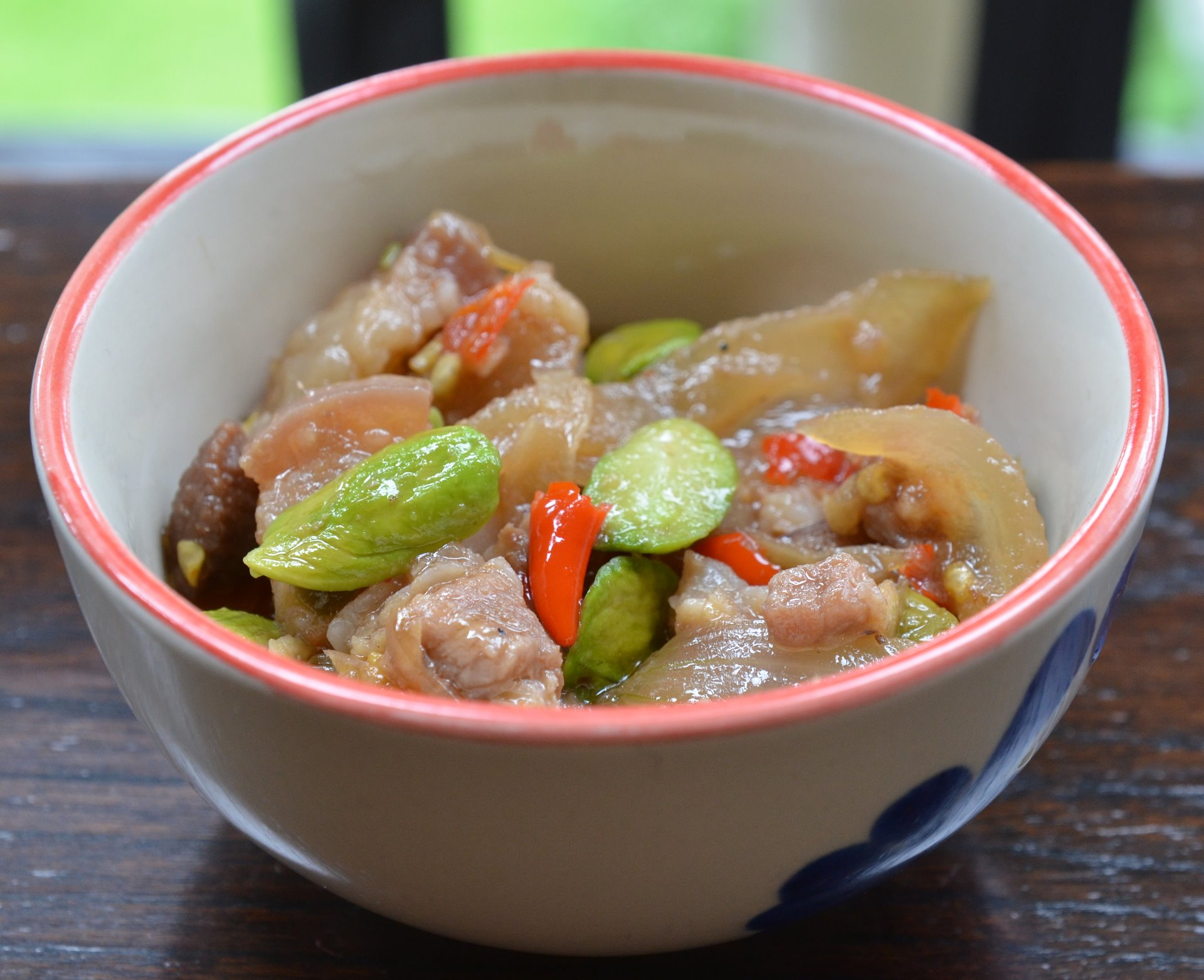 Mu phat sato (Thai script: หมูผัดสะตอ): pork stir-fried with "stink beans" (beans of the Parkia speciosa).